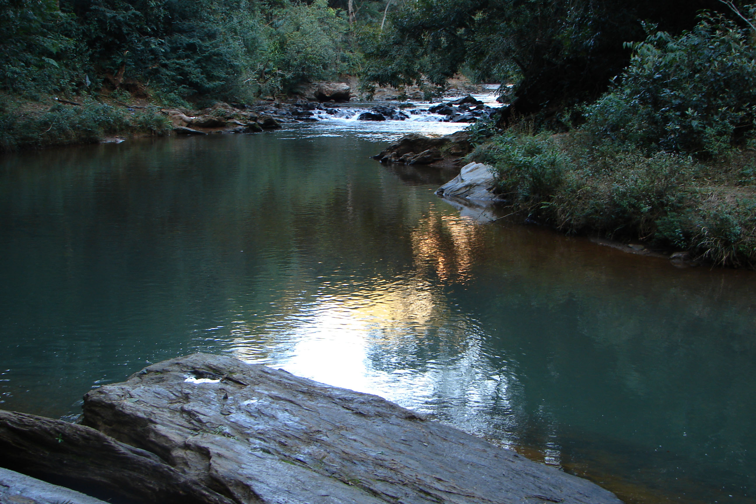 Poço azul de raposos